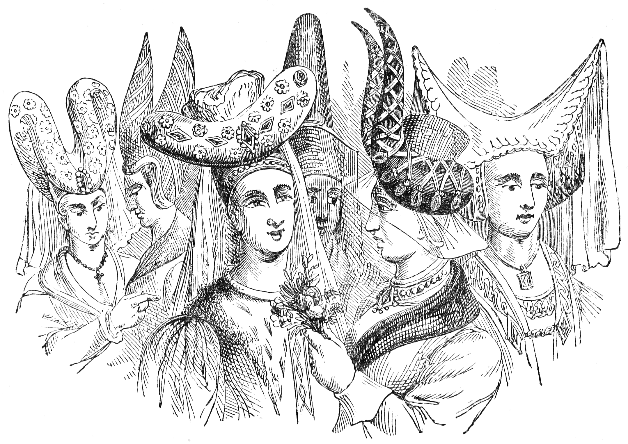 “Female head dresses of the fifteenth century styled au hennin,” from an 1847 engraving